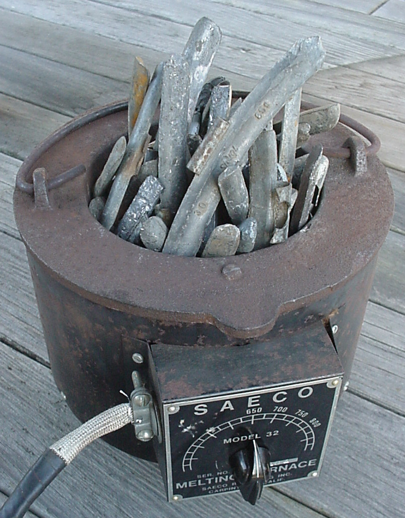 Electric melting pot charged with scrap wheel weights.